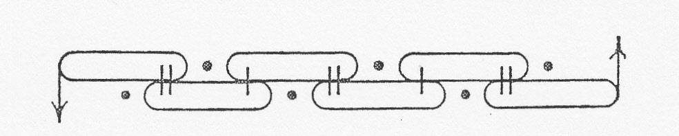 First Benzene structure proposed by Kekulé